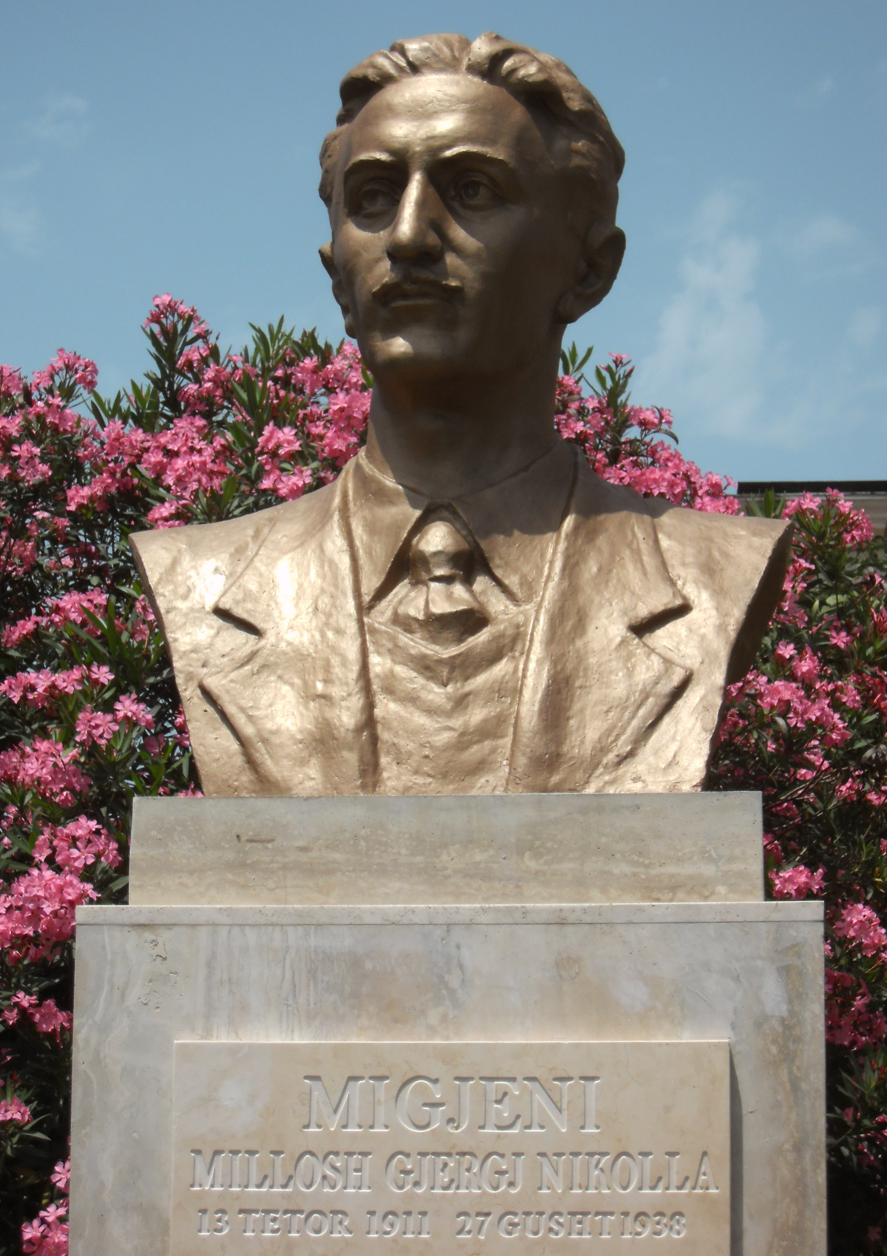 Migjeni, albanian poet (1911-1938); monument in front of the Migjeni Theatre in Shkodra